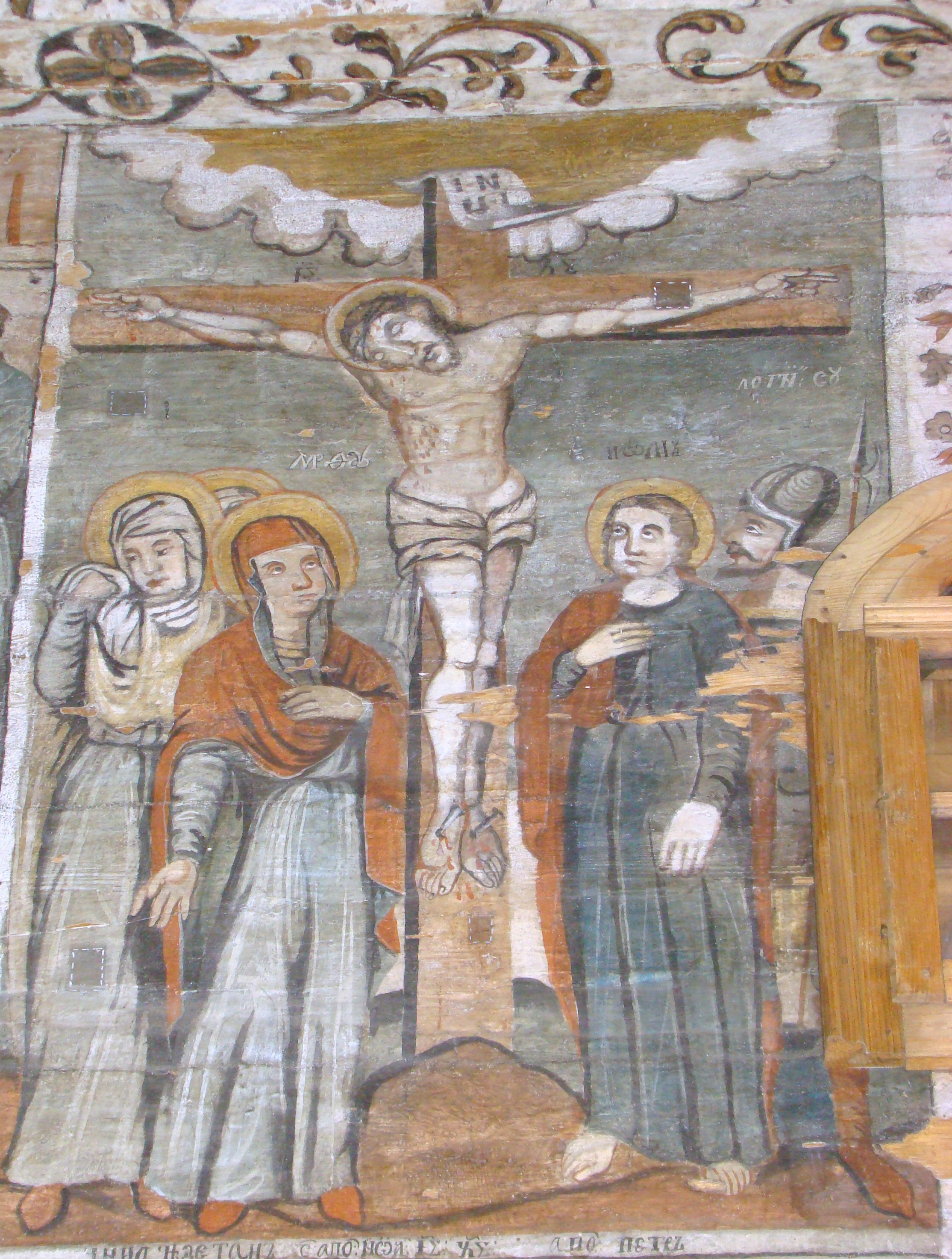 Wooden church in Borșa, Maramureș county, Romania